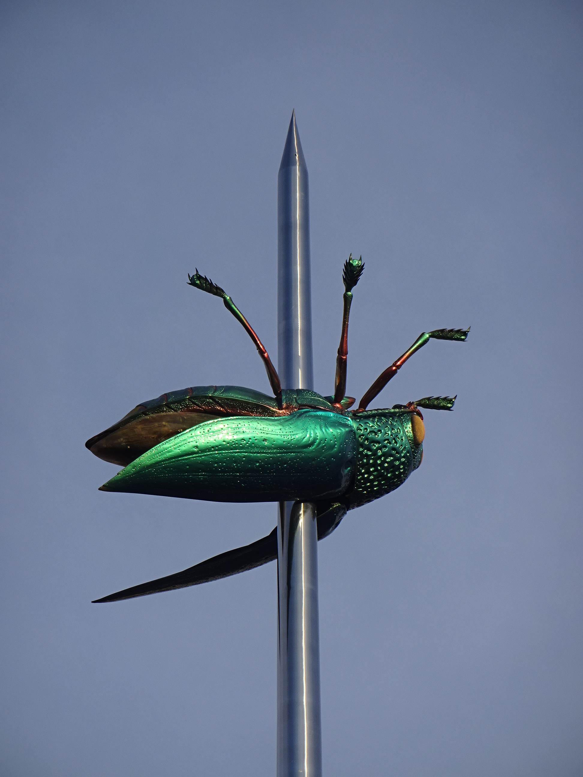 Art installation by Jan Fabre